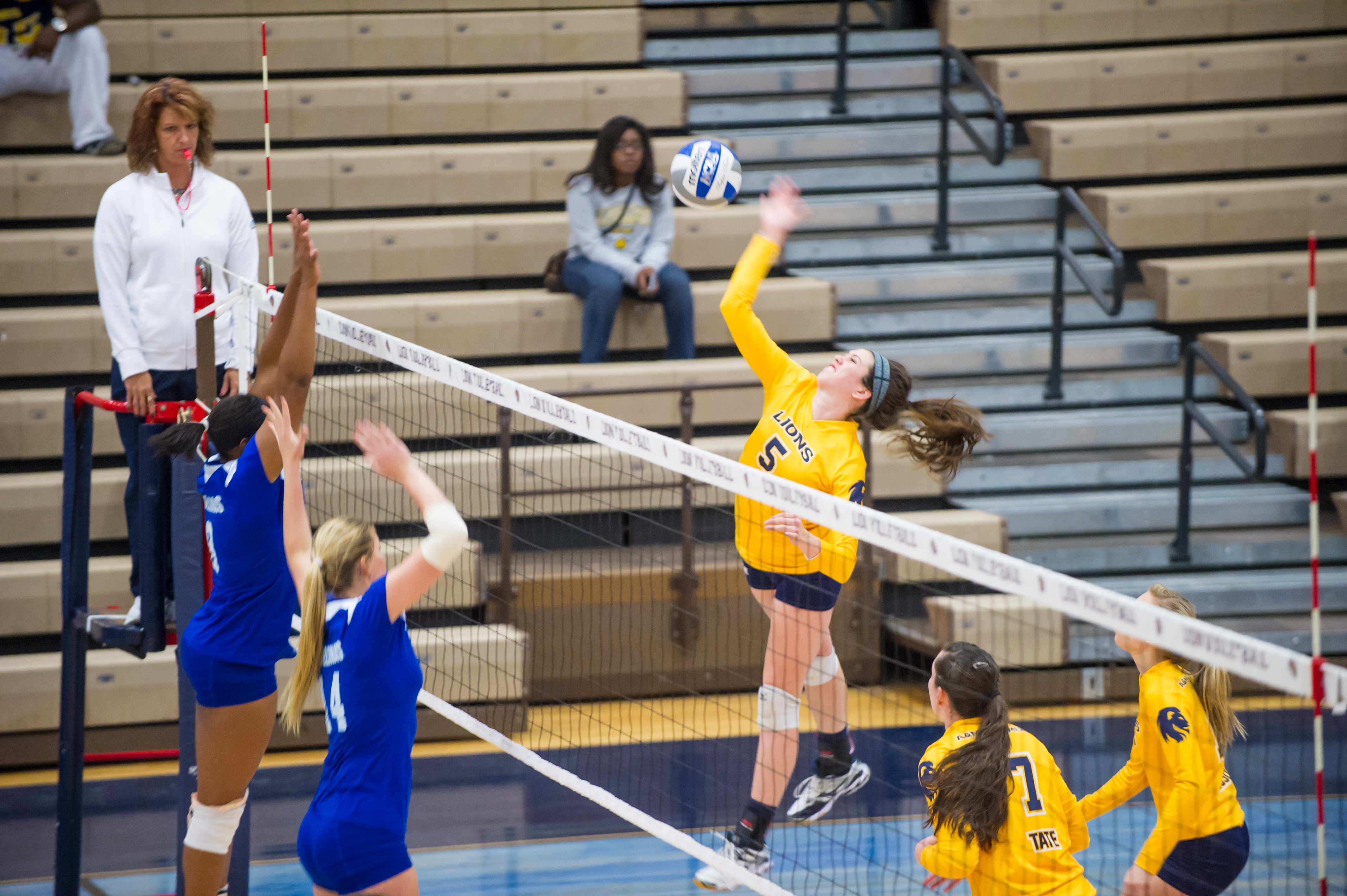 Athletics-Volleyball vs TAMUK-9091.jpg 2014–15 Texas A&M–Commerce Lions women's volleyball team